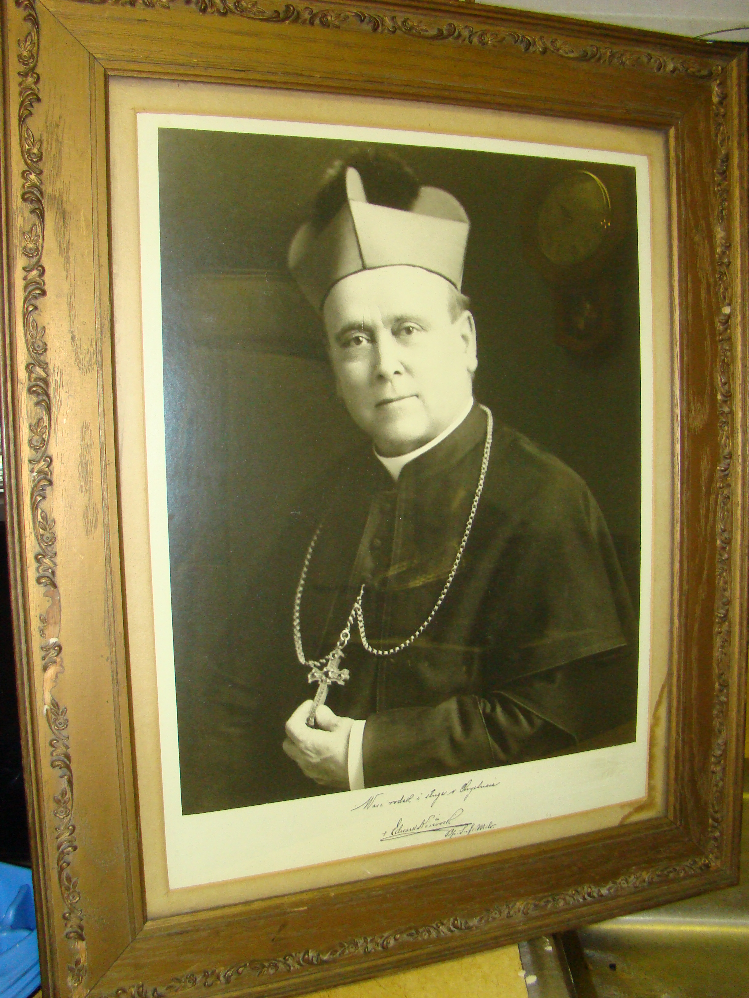 Photo - portrait of Bishop Edward Kozlowski